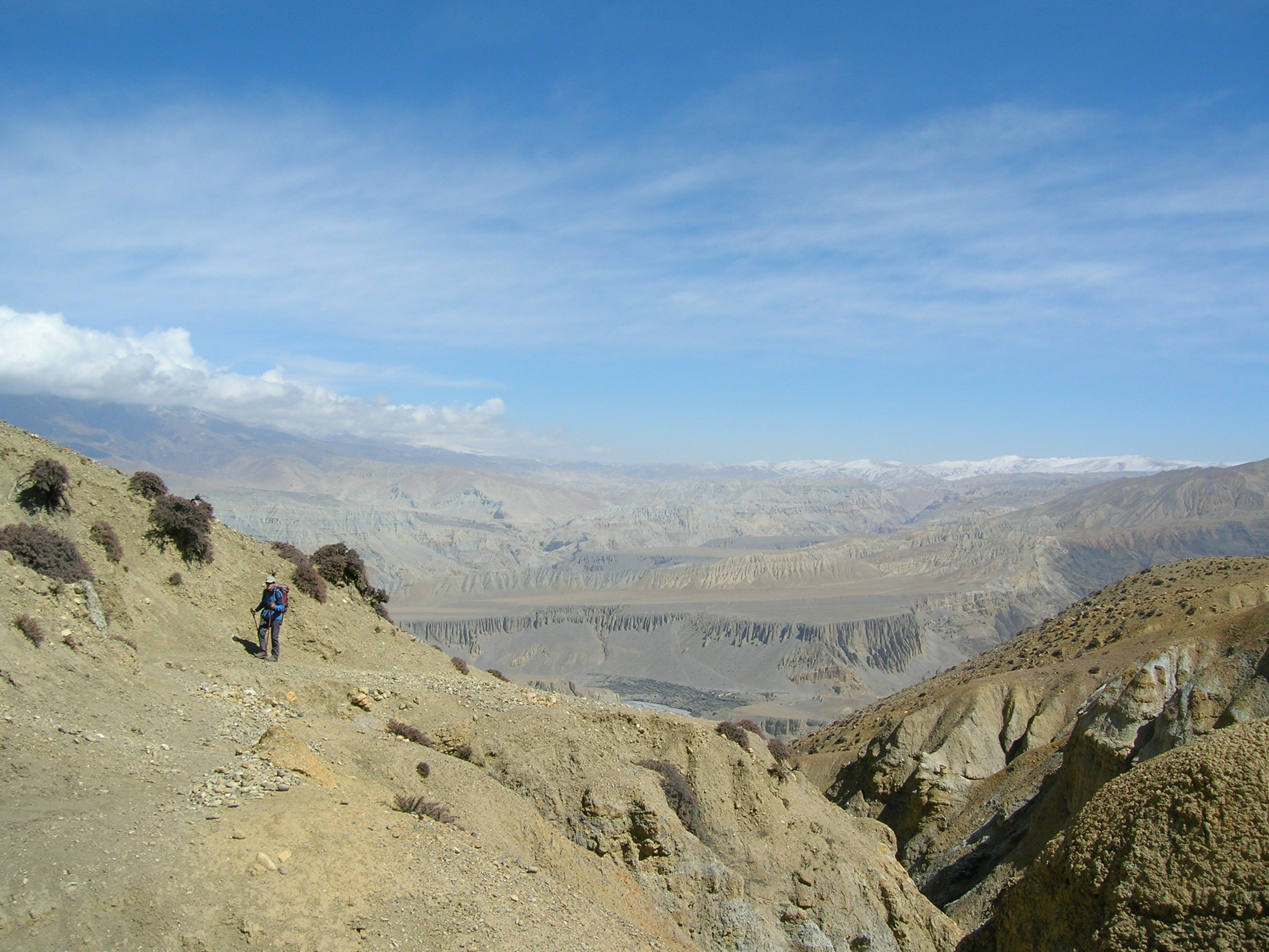 Landscape of Mustang (a region of Nepal) desert. View towart the tibetan border.